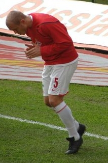 Mozart Santos Batista Júnior. 2007 Russian cup semifinal (FC Lokomotiv Moscow v.s. FC Spartak Moscow)